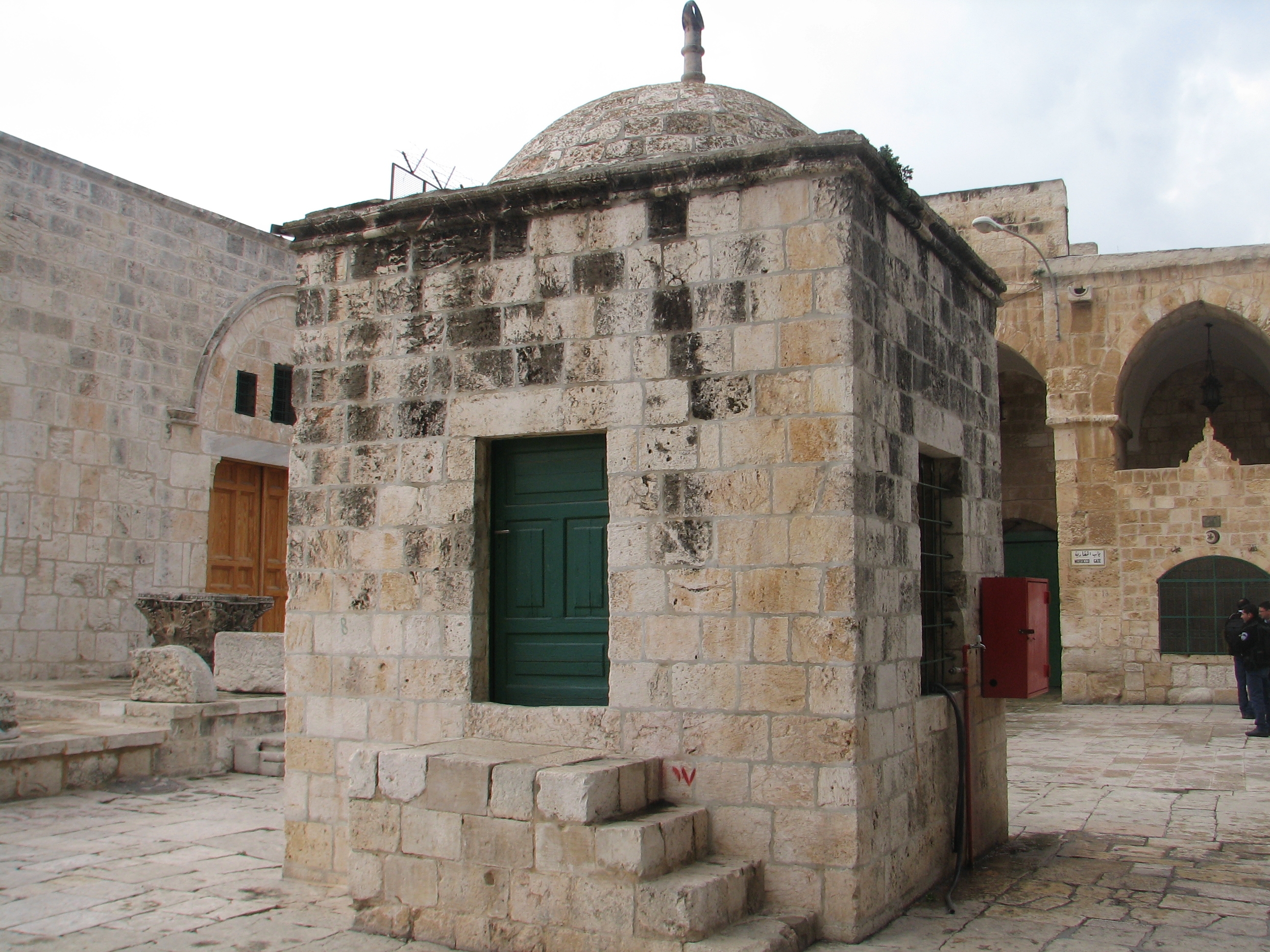 Al-Aqsa Mosque